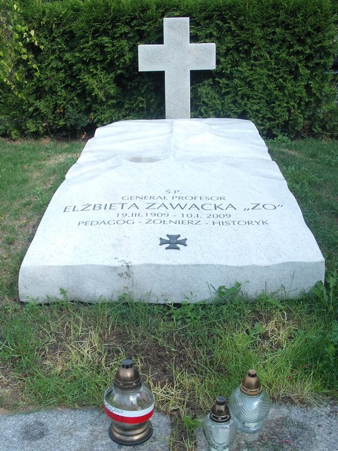 Gravestone of Elzbieta Zawacka (1909-2009) at the St. George Cemetery in Torun